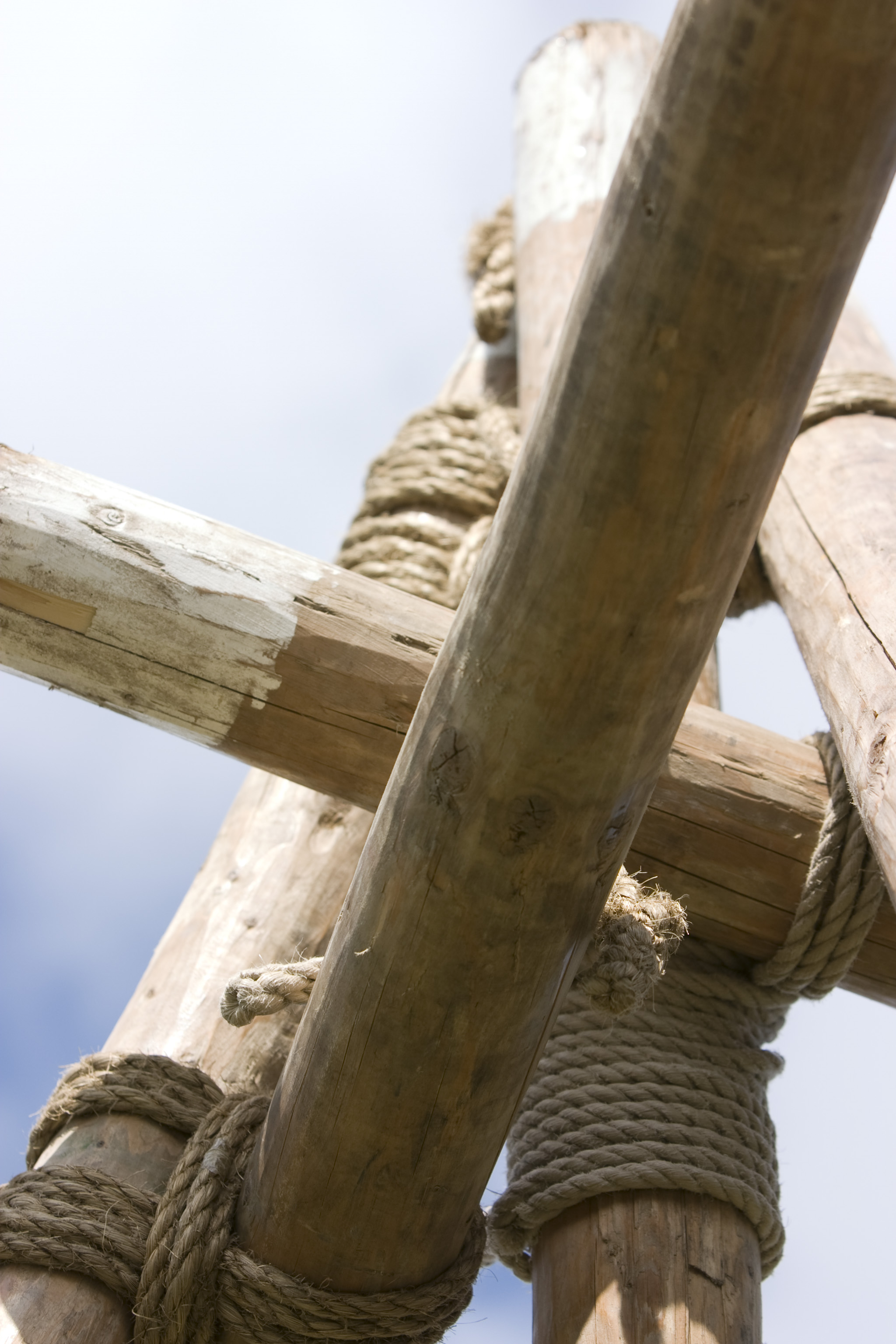 Some construction work